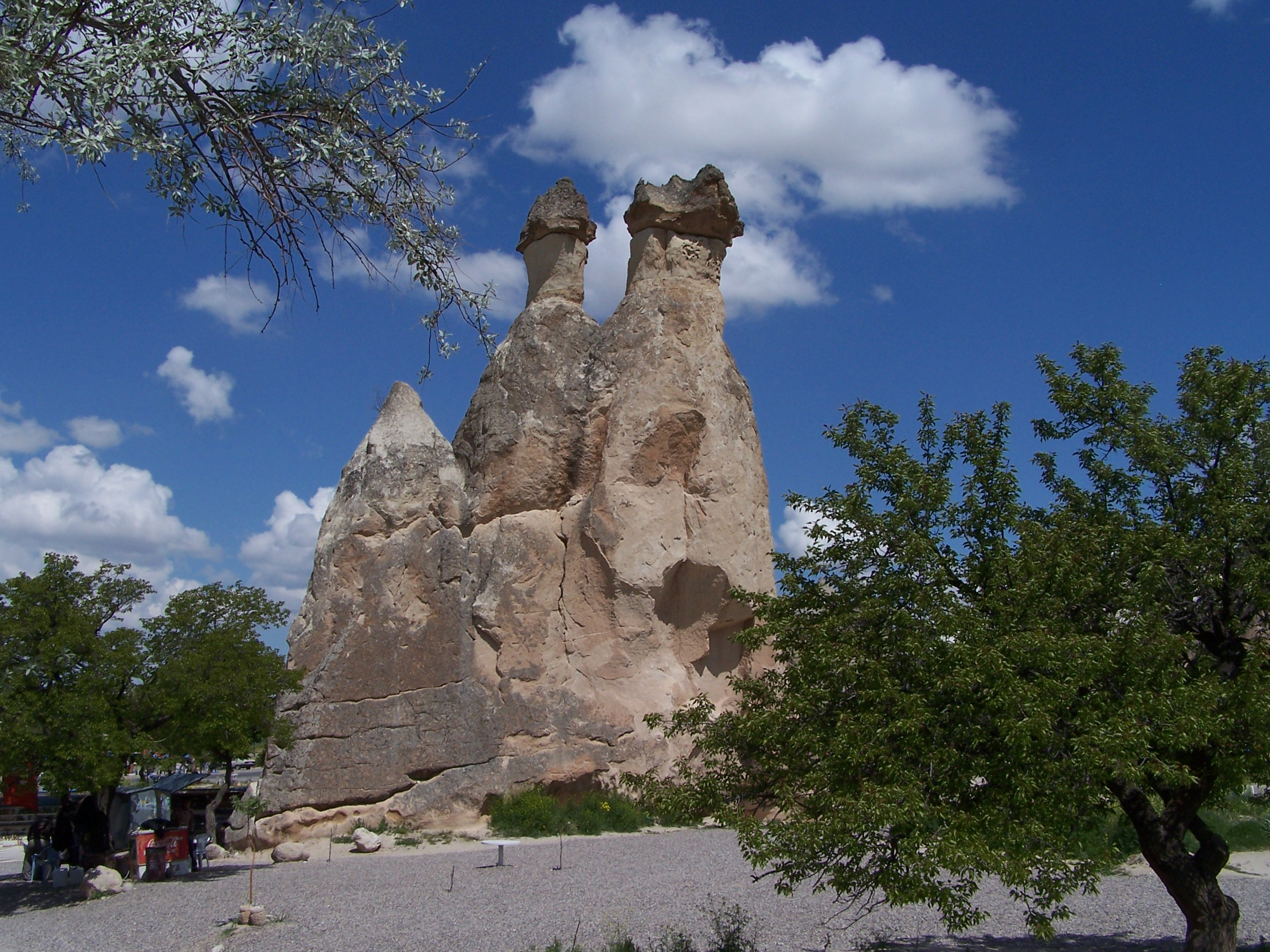 Fairy Chimneys in Goreme